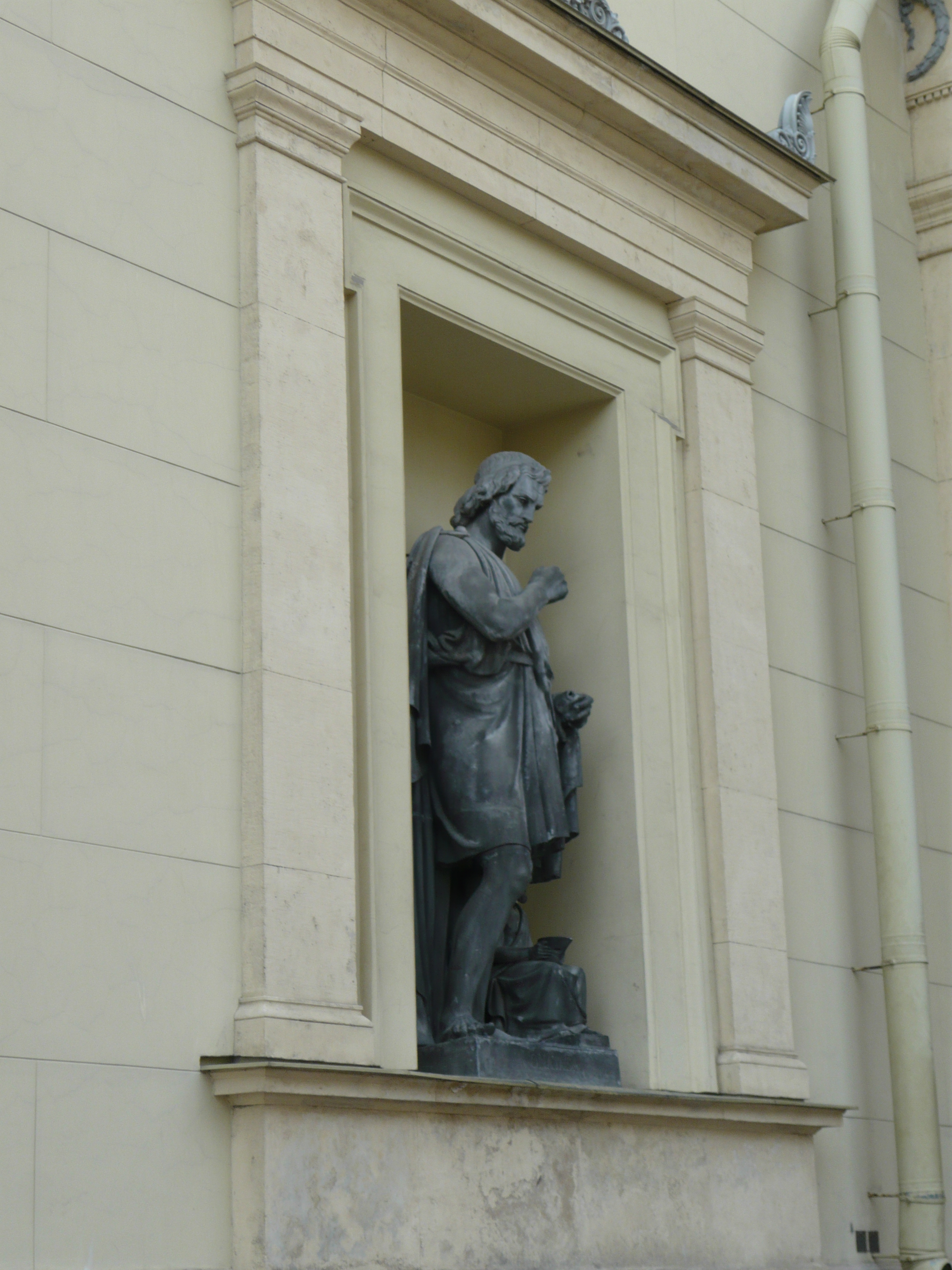 Statue of Onatas, was an ancient Greek sculptor of the time of the Persian Wars and a member of the flourishing school of Aegina.